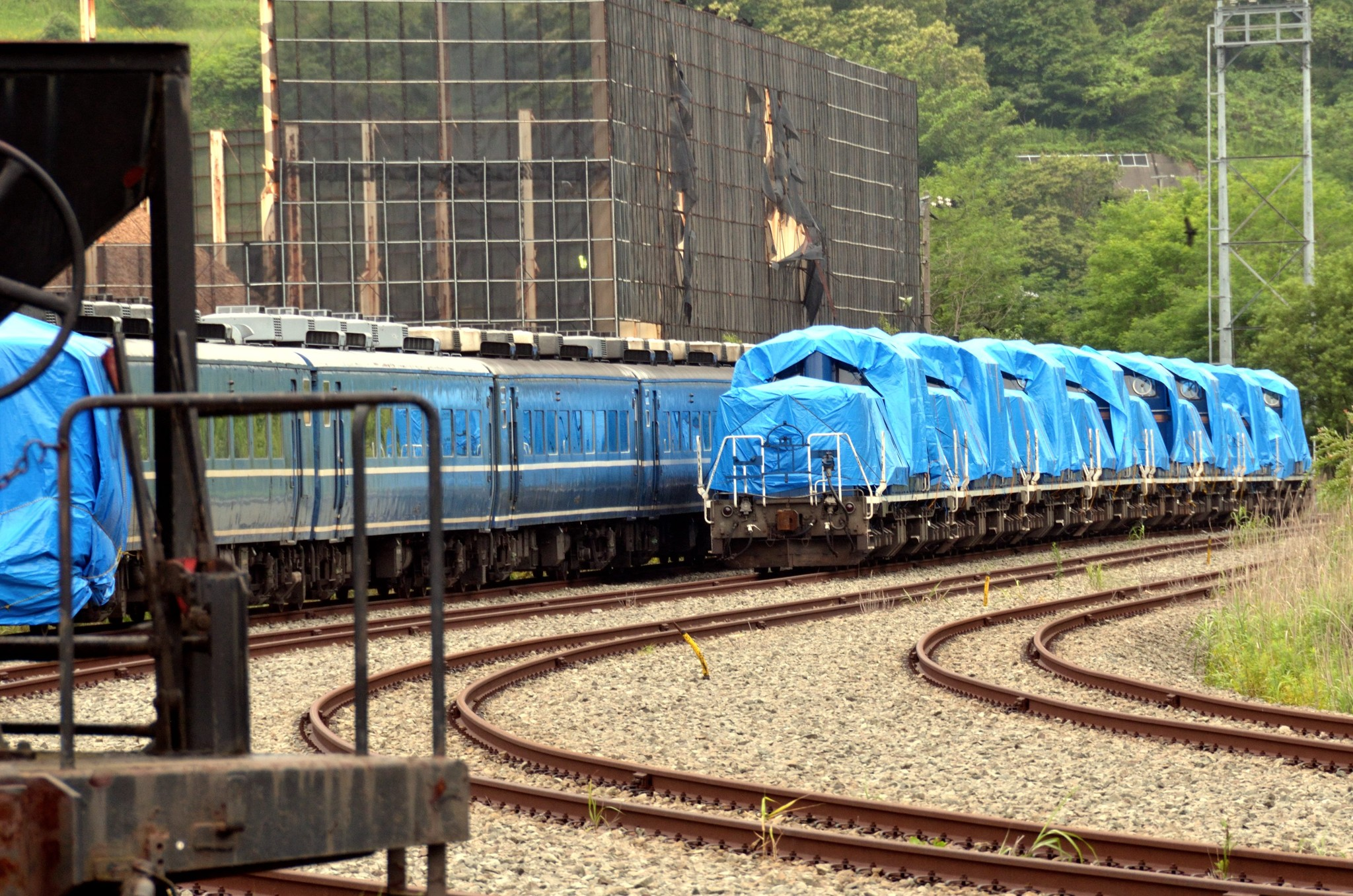 Withdrawn JR Hokkaido Class DD51 diesel locomotives stored at Jinyamachi Rinkai Yard in Muroran, Hokkaido, Japan